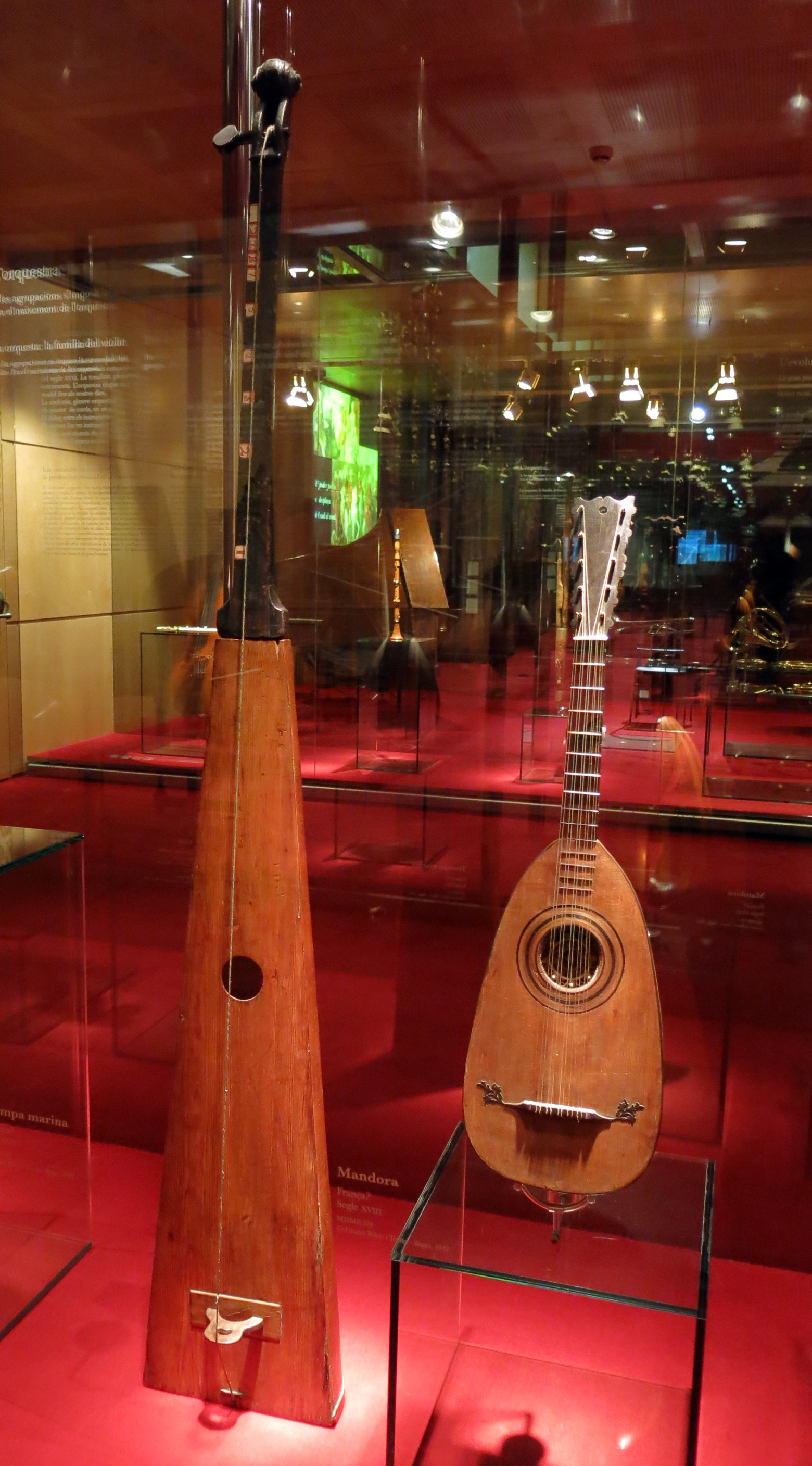 Chordophones in the Museu de la Música de Barcelona, tromba marina